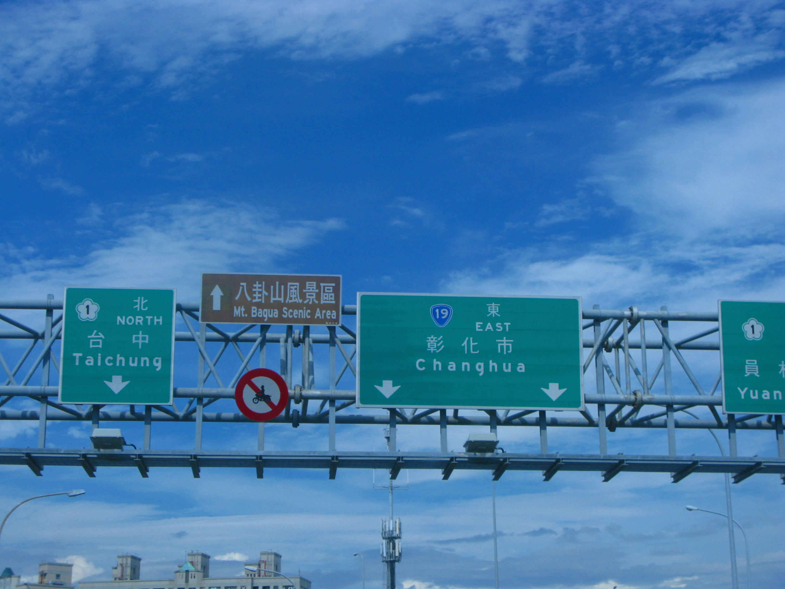 Taiwan 19th path sign